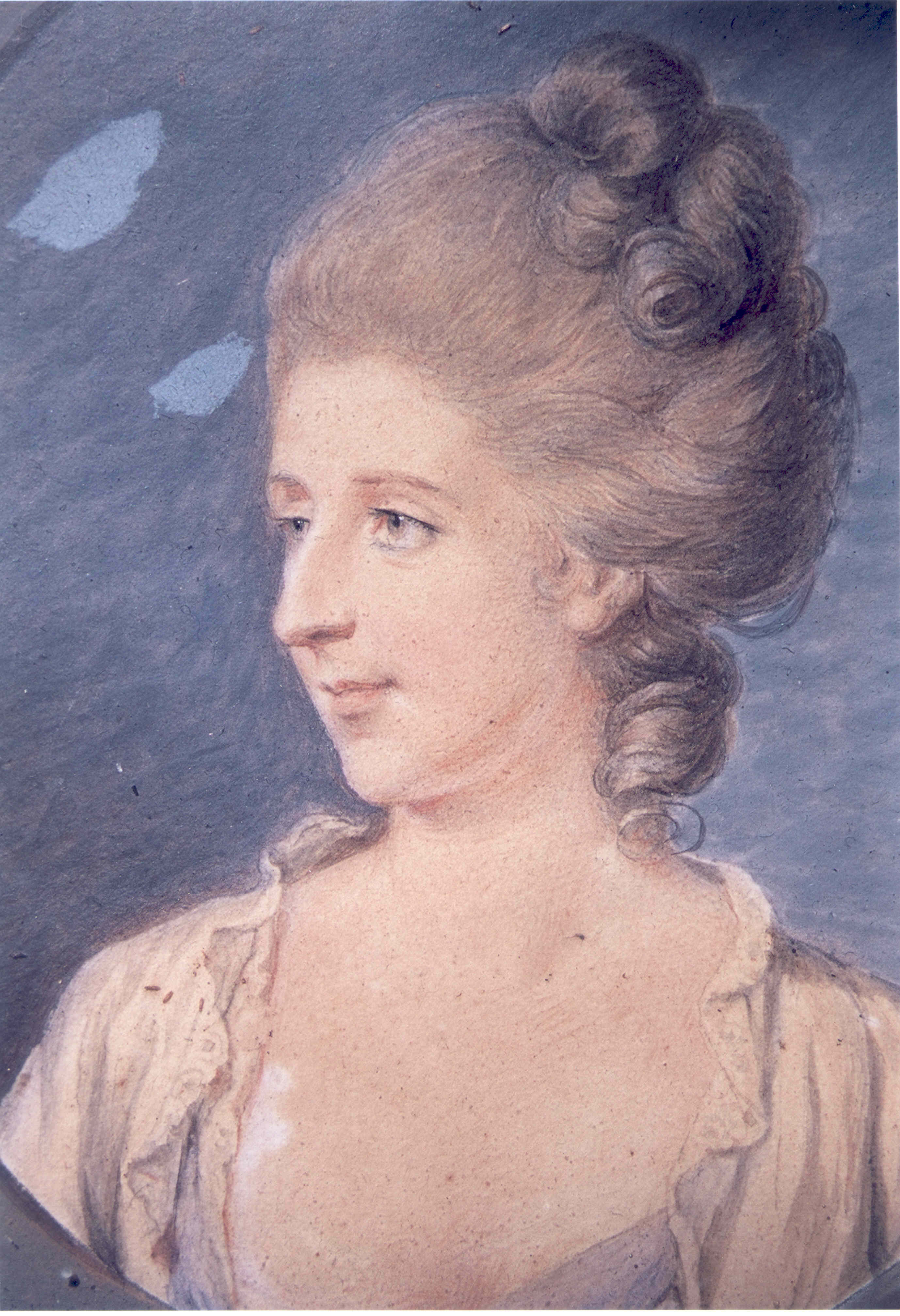 (photo: R. de Salis). Scan of a photo (scan & photo by me, R. de SalisRodolph2 (talk) 12:49, 31 July 2014 (UTC)) of a small painting of Catharina-Letitia (died 23 November 1814) daughter of Rev. Dr. Henry Leslie (1719–1803), LLD, of Ballibay, co. Monaghan, and wife of Lord Bishop Foster, William Foster (1744-1797), Bishop of Kilmore and then of Clogher.Rodolph 17:17, 16 July 2007 (UTC)